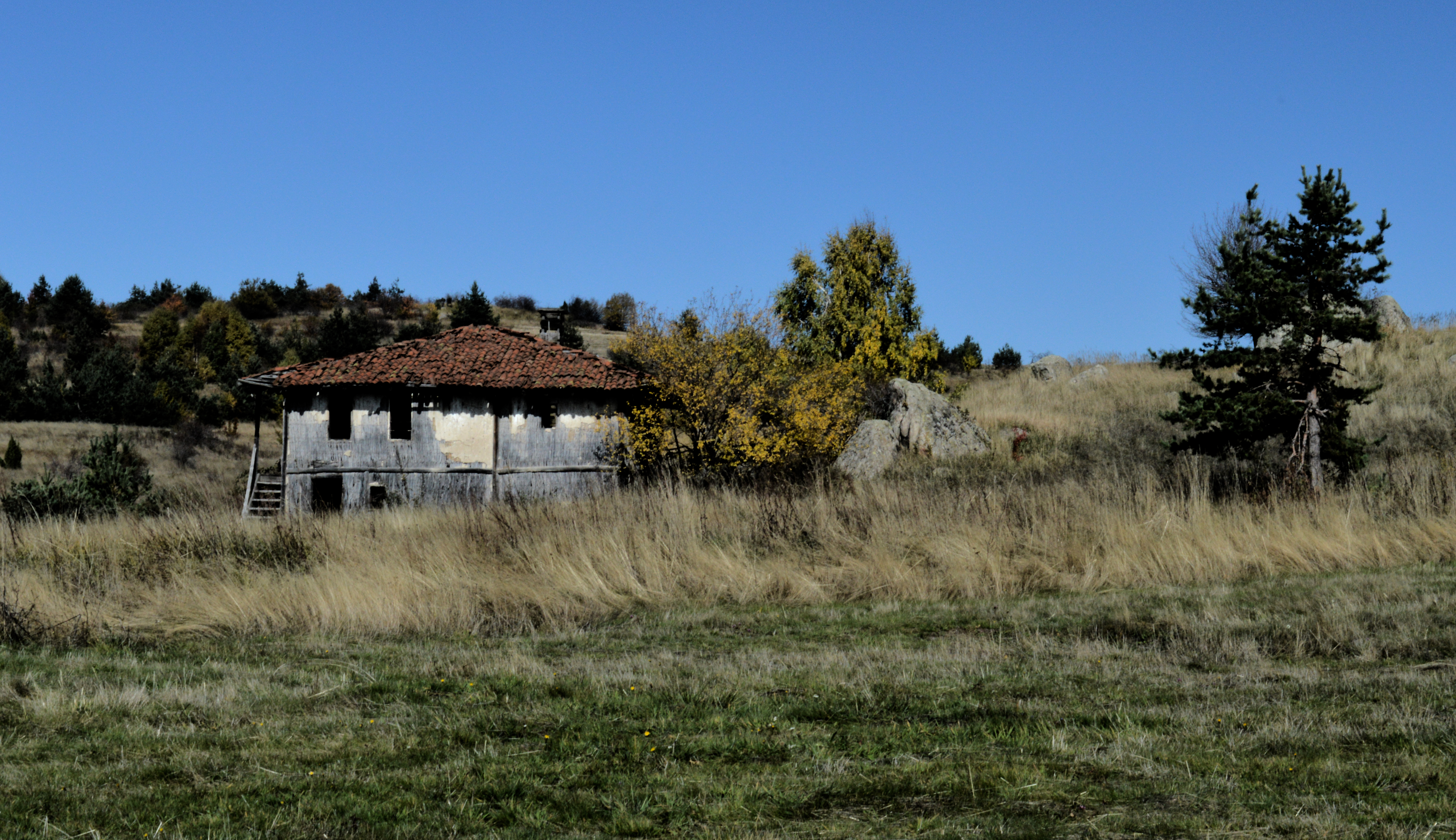 Protected zone Plana mountain